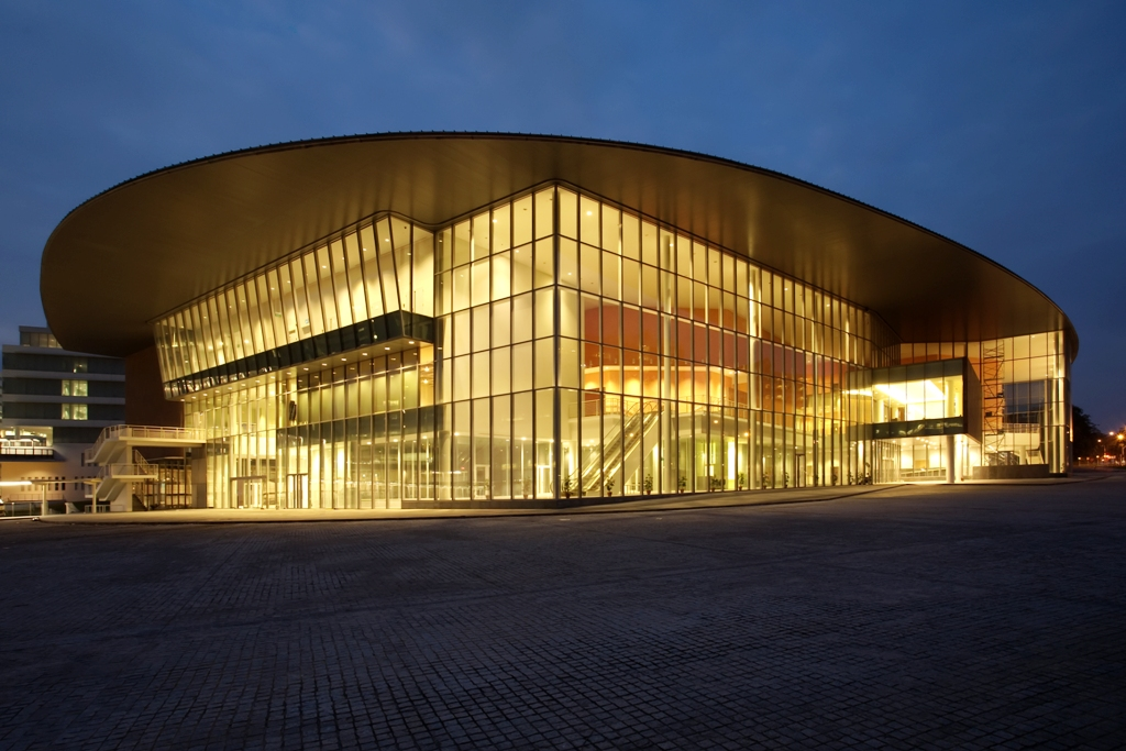 The Republic Cultural Centre (TRCC) of Republic Polytechnic in Singapore.